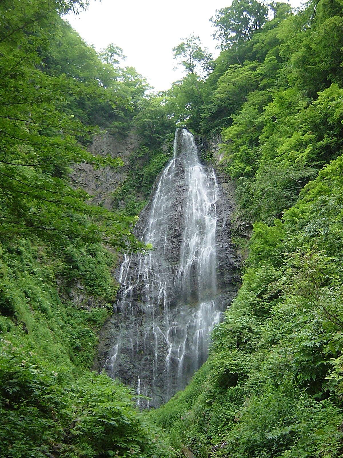 Kurokuma Falls, Ajigasawa village, Aomori prefecture.